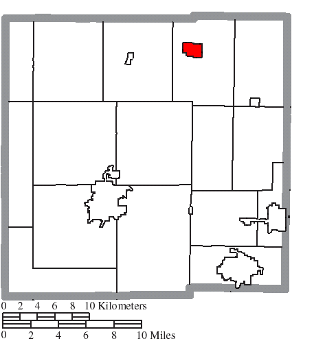 Map of the municipal and township boundaries of Crawford County, Ohio, United States, as of the 2000 census, with the location of the village of New Washington highlighted. Township borders are shown only in unincorporated areas in order to differentiate incorporated and unincorporated areas more clearly.